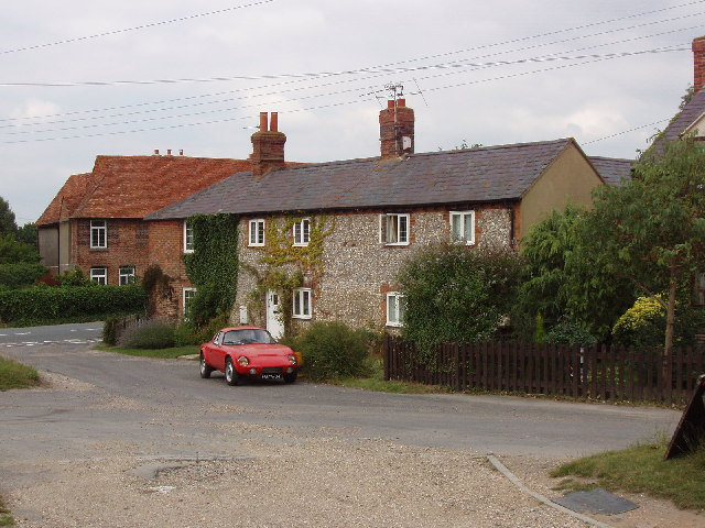 View from the forecourt of The Shepherd's Crook public house, Crowell, Oxfordshire, looking towards the B4009 road